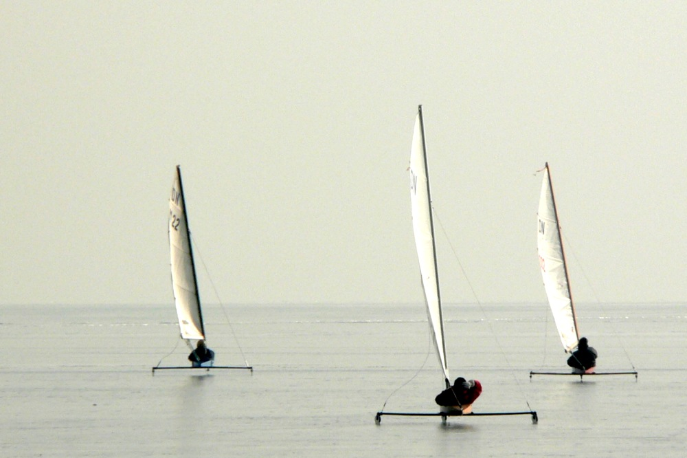 Ice boaters on Lake Balaton. Photograph by F. Kovacs.